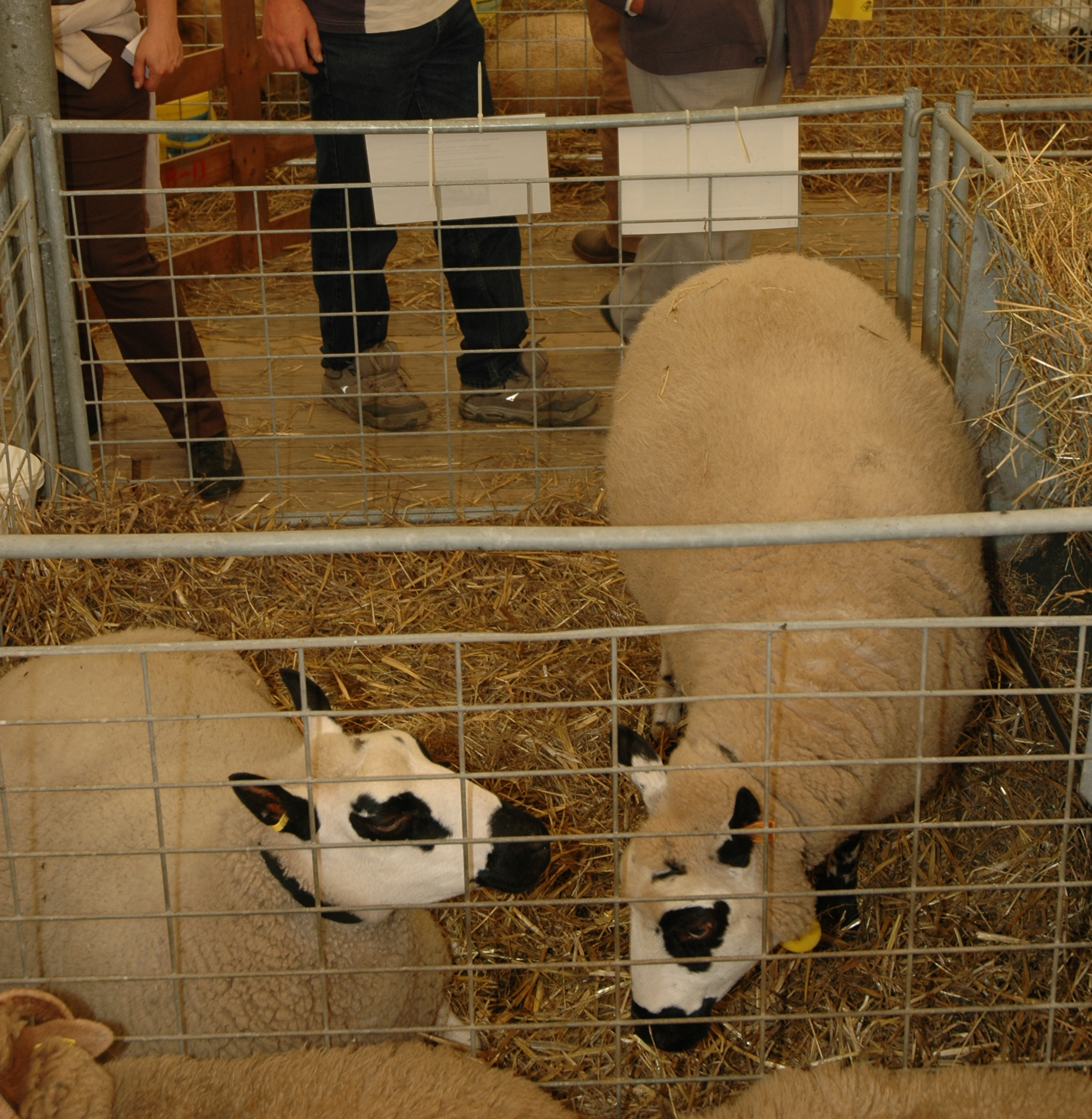 A pair of Kerry Hill breed sheep at an agricultural fair.